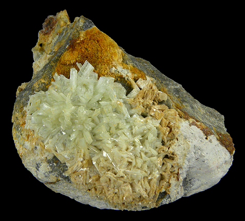 Paravauxite, Sigloite Locality: Siglo Veinte Mine (Siglo XX Mine; Llallagua Mine; Catavi), Llallagua, Rafael Bustillo Province, Potosí Department, Bolivia (Locality at ) Size: 5.8 x 4.2 x 2.7 cm. This remarkably large specimen features an attractive group of lustrous, water-green color Paravauxite crystals and some minor tan color Sigloite crystals associated with micro crystallized iron-stained Wavellite needles on matrix. Sigloite forms as an alteration of Paravauxite. The largest Paravauxite crystal measures 0.7 cm. This specimen is from the type locality for both species. Mark Chance Bandy described Paravauxite crystals in his book "Mineralogy of Llallagua, Bolivia". He states that Paravauxite is the most abundant of all the "Vauxites" from this mine…" This piece is a great example of the prismatic, sheaf-like parallel growths that Mr. Bandy described. From the Contaco Vein.